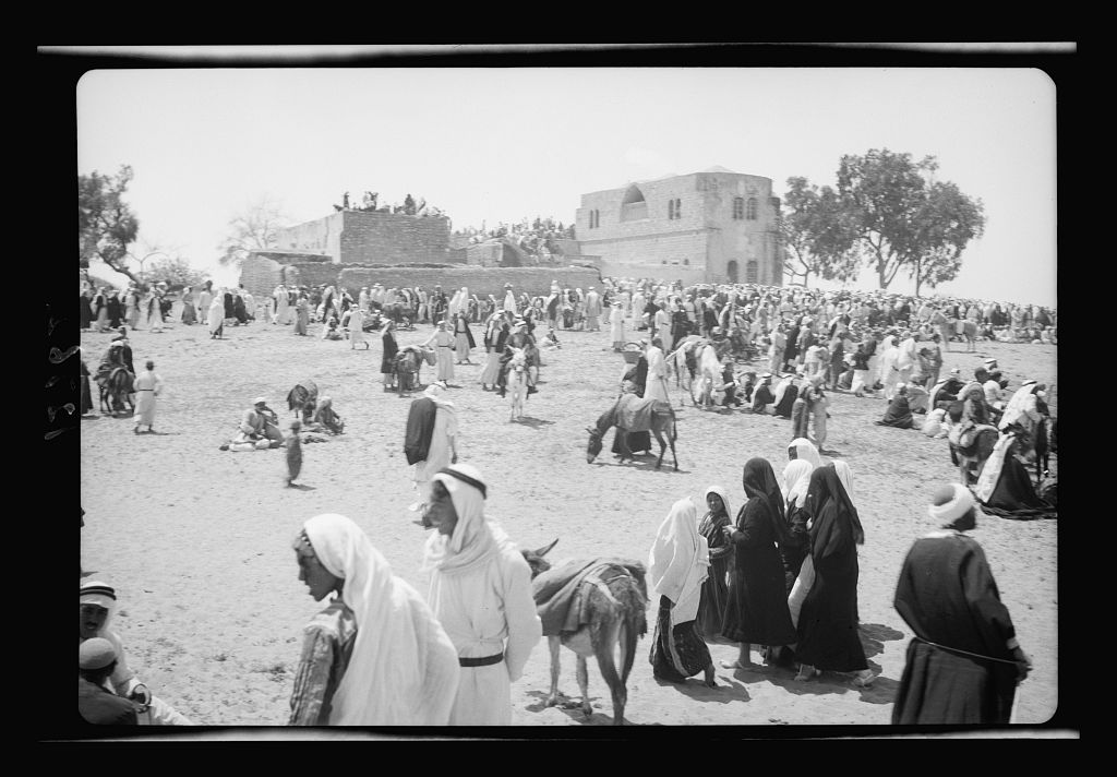 Muslim celebrations at Mejdal (Wady Nemill and Seyid Hussein Shrine at Ascalon) and at Gaza (el Muntar) April 20th, 21st and 22nd 1943. The Shrine of Seyid Hussein from N.E